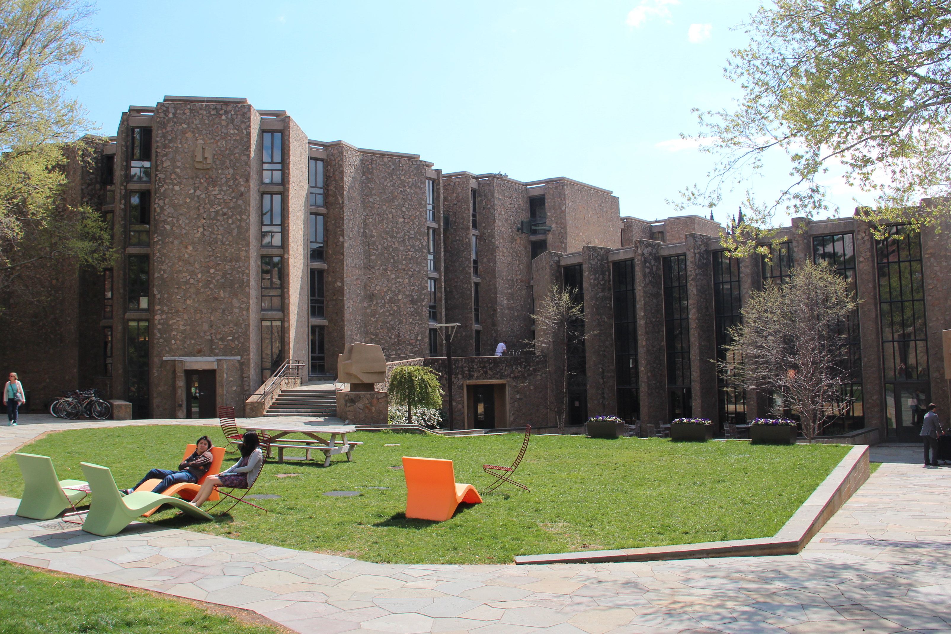 Courtyard of Morse College at Yale University, facing the dining hall and library.